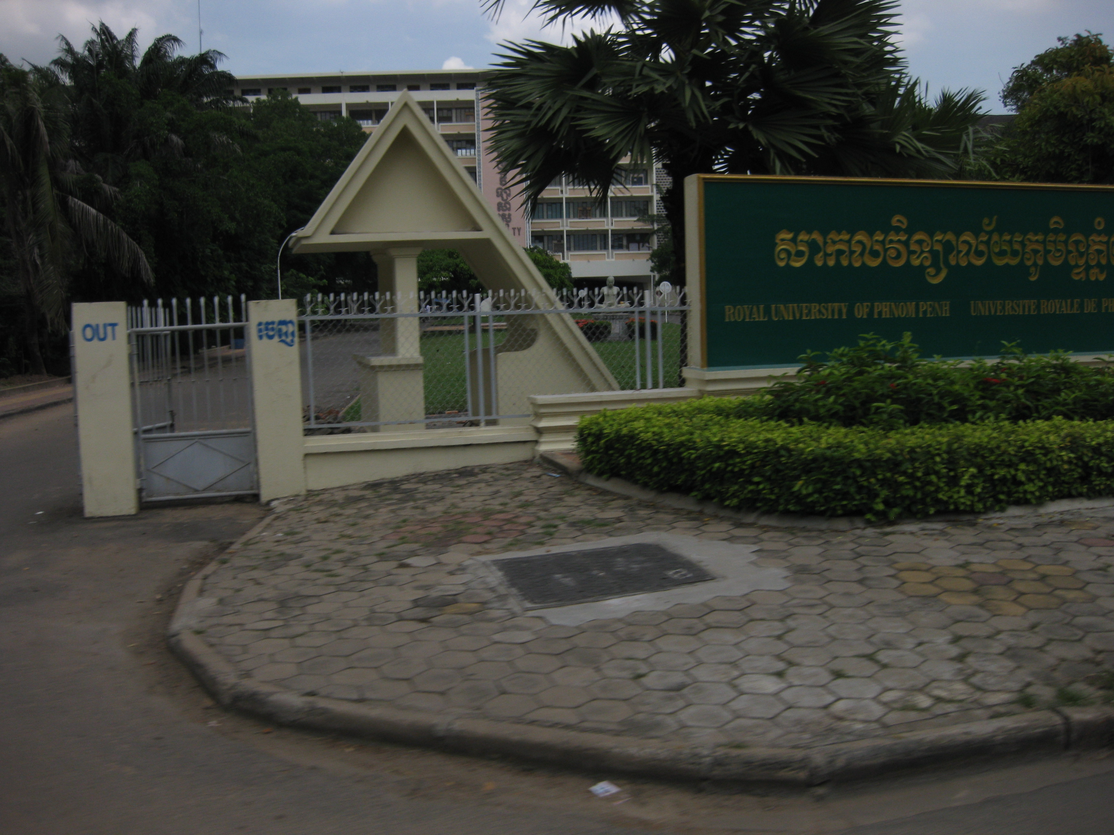 Front shot of RUPP